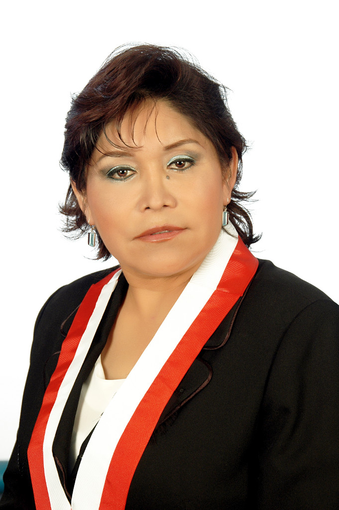 Congresista Margarita Sucari Cari - Congresista de la República por la Región Puno - Perú